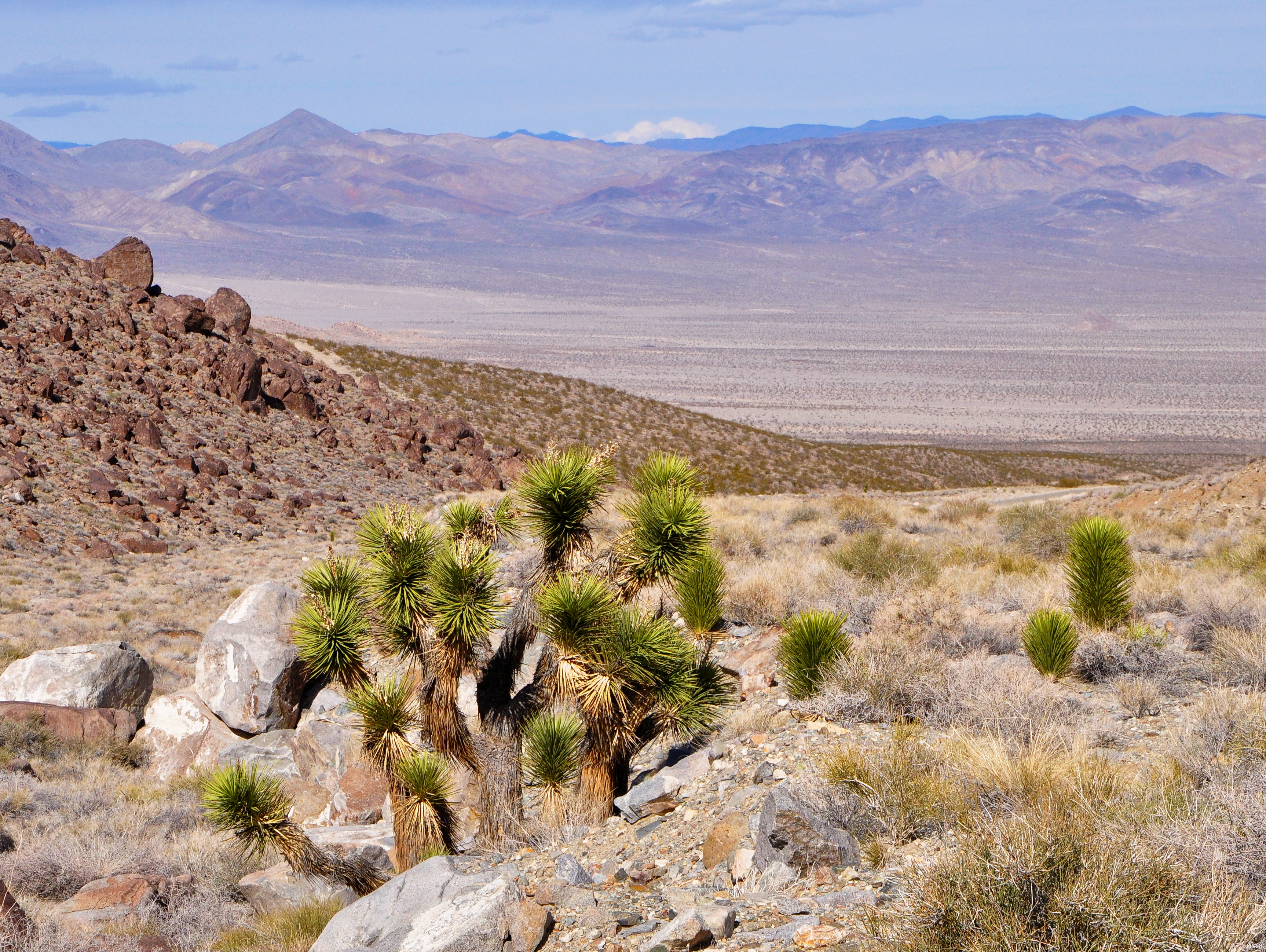 Joshua Trees in the Inyo Mountains above Eureka Valley — Inyo County, California, USA. Scattered mature Joshua Trees in this northernmost stand of the Joshua tree (Yucca brevifolia) are surrounded by abundant seedlings and saplings. Recent climates, and General Circulation Model results of future climates, portray this area as being suitable for the survival and expansion of Joshua trees.